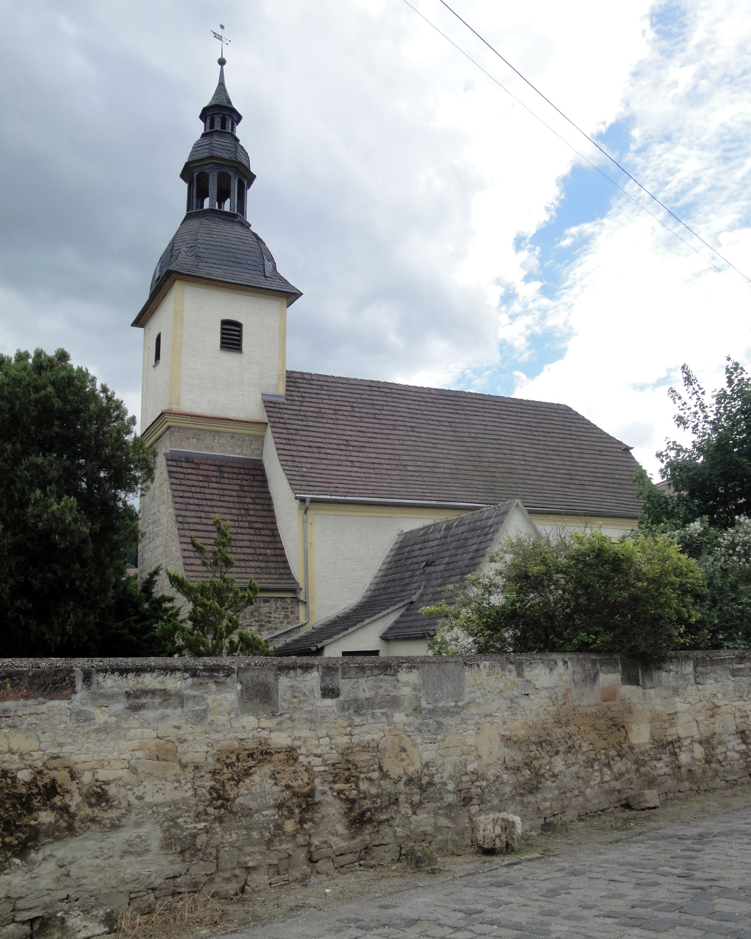 St. Georg church in Almrich, Naumburg (Saale), Germany